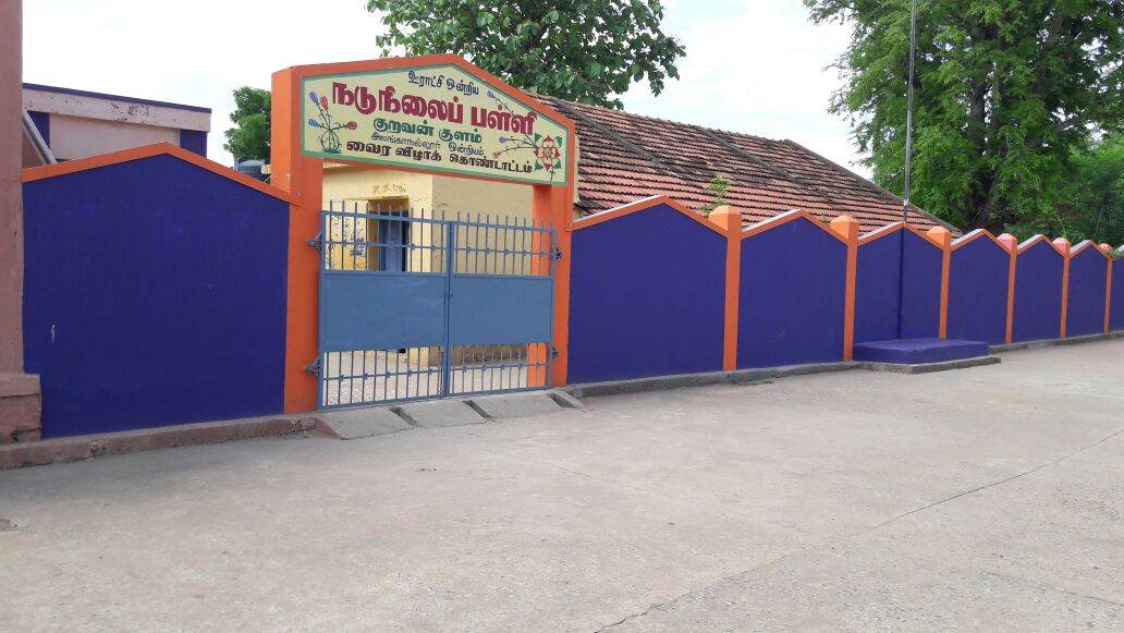 Kuravan kulam compound wall